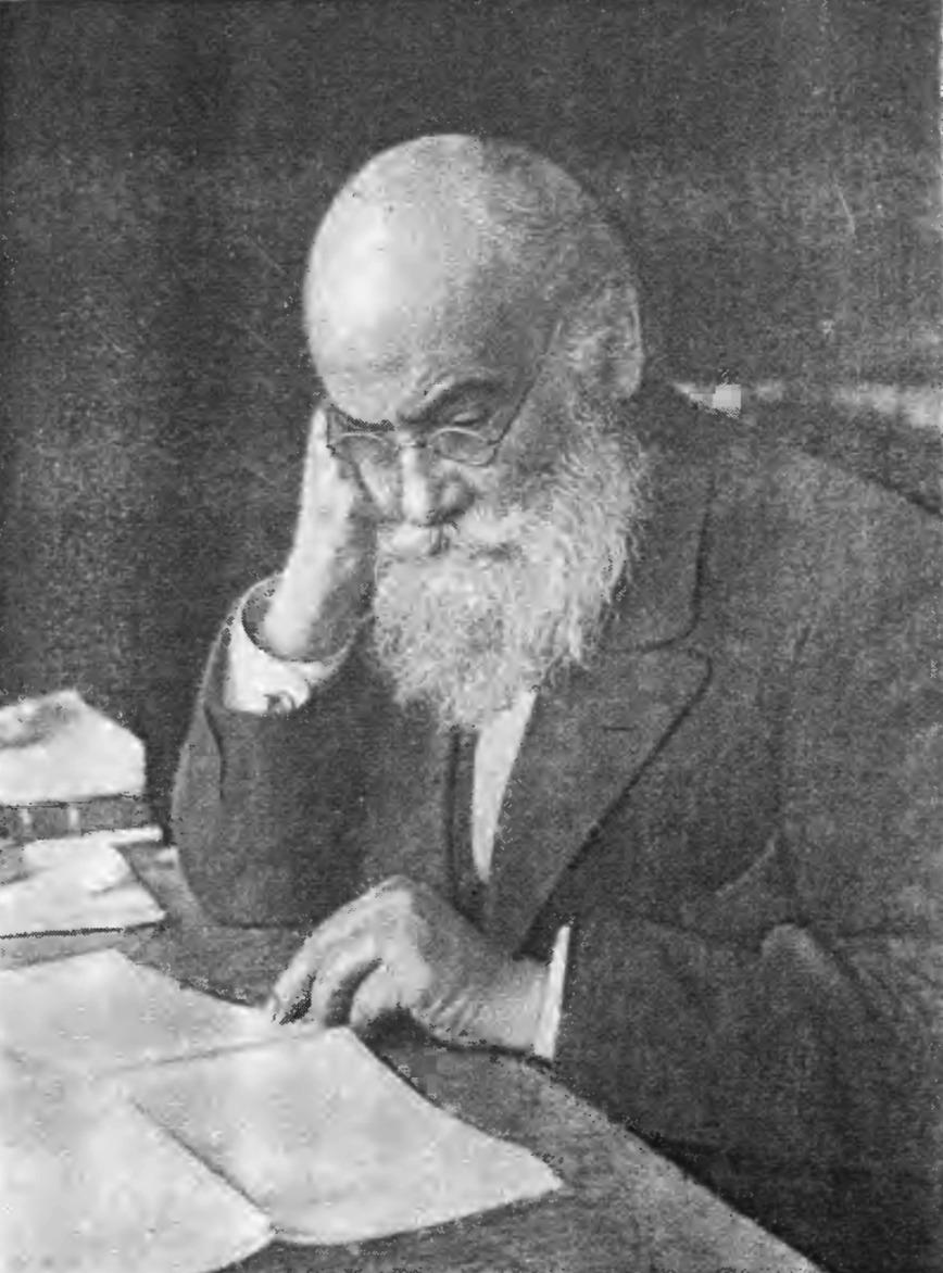 Nikolai Egorovich Zhukovskii at work (1915)